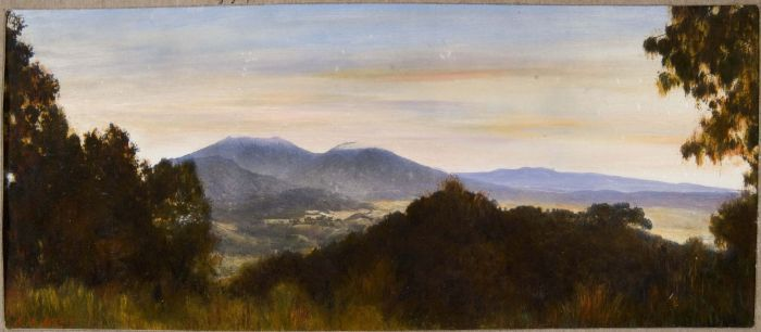 Painting on a photograph of the Ijen Plateau, with the gunung Raung and the gunung Suket